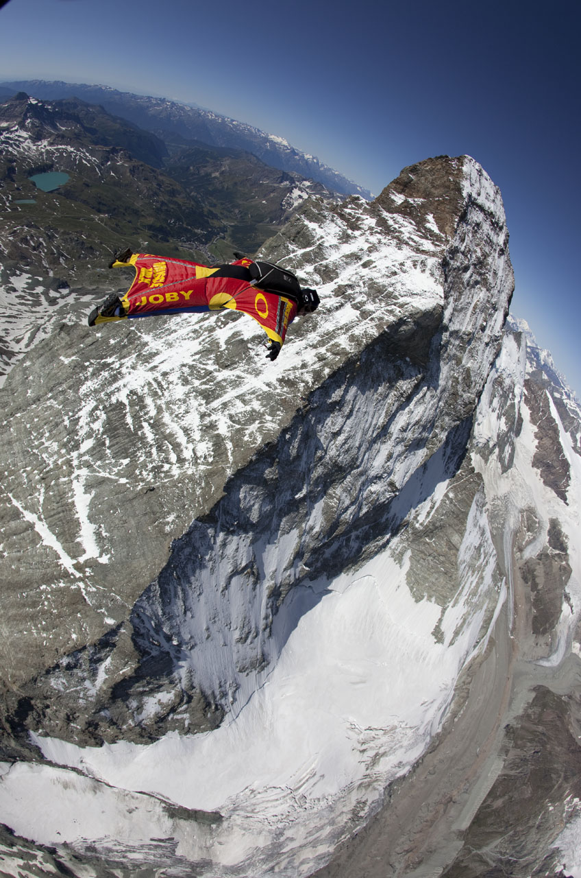 Joby Ogwyn making the first wingsuit flight next to the north face of the Matterhorn.